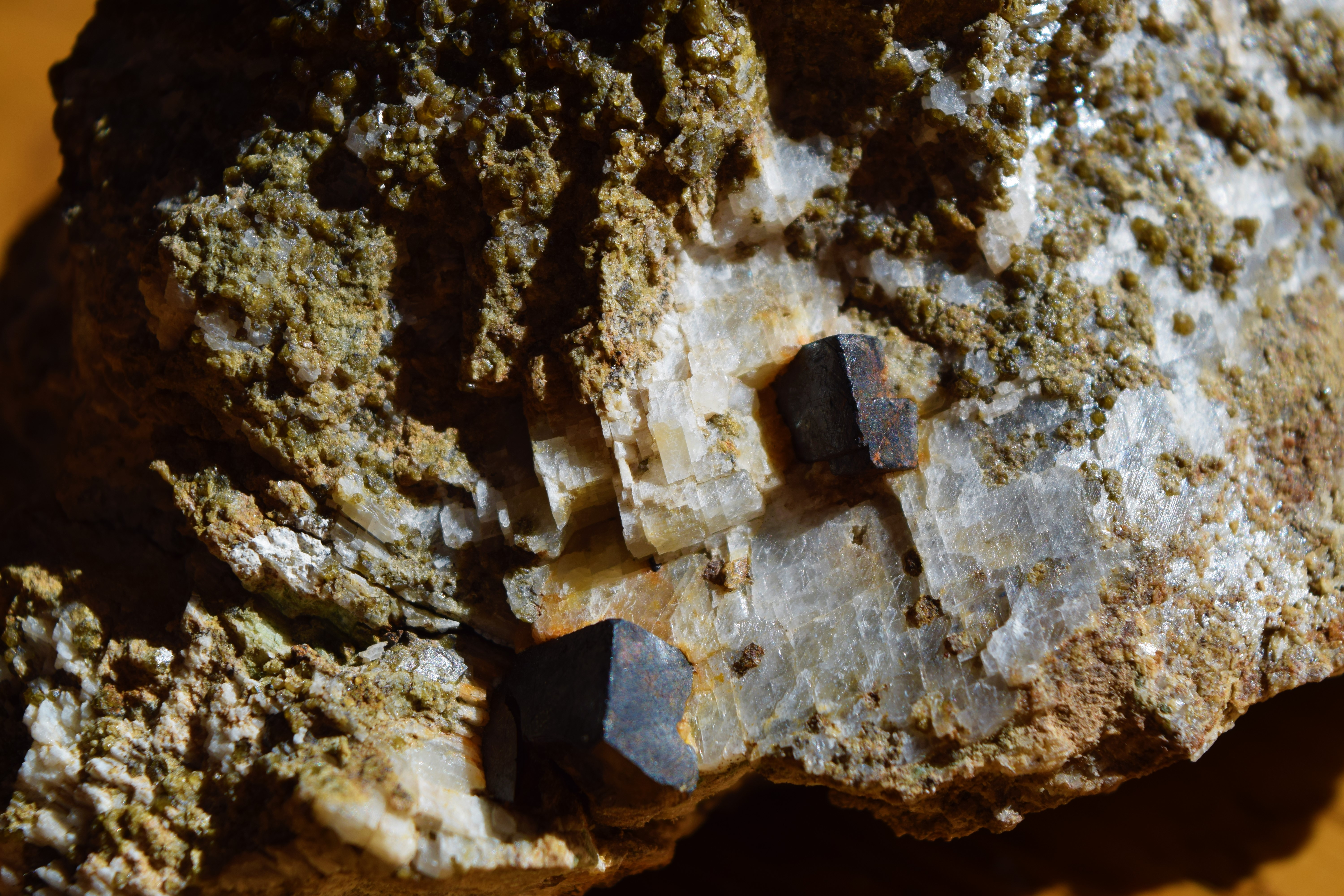 Two Pyrite Cubes on Calcite from Santa Fe County, New Mexico